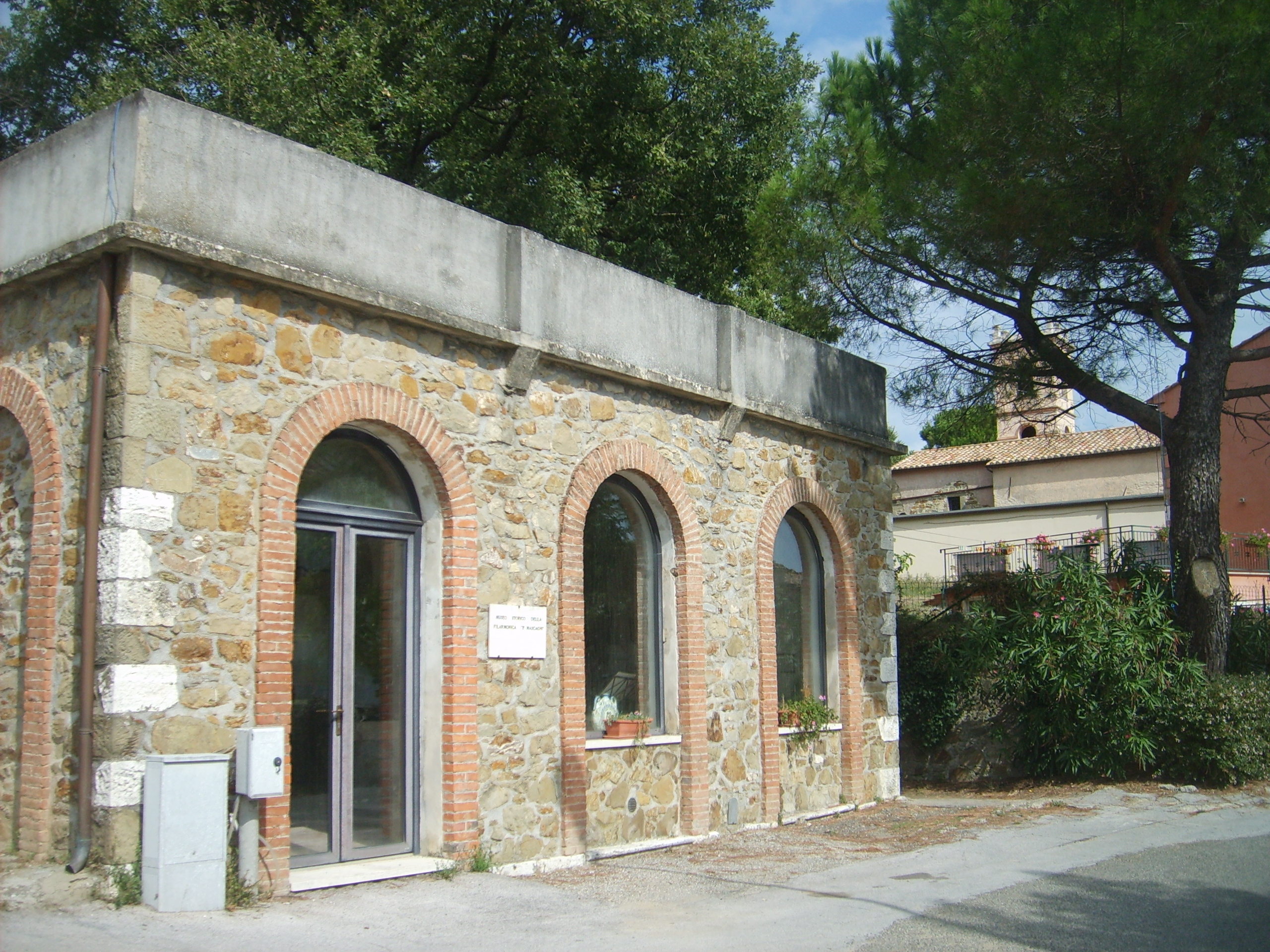 Museum of Filarmonica Pietro Mascagni, Poggio Murella (Grosseto)